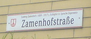 Street sign of Linz, Austria showing Zamenhofstraße